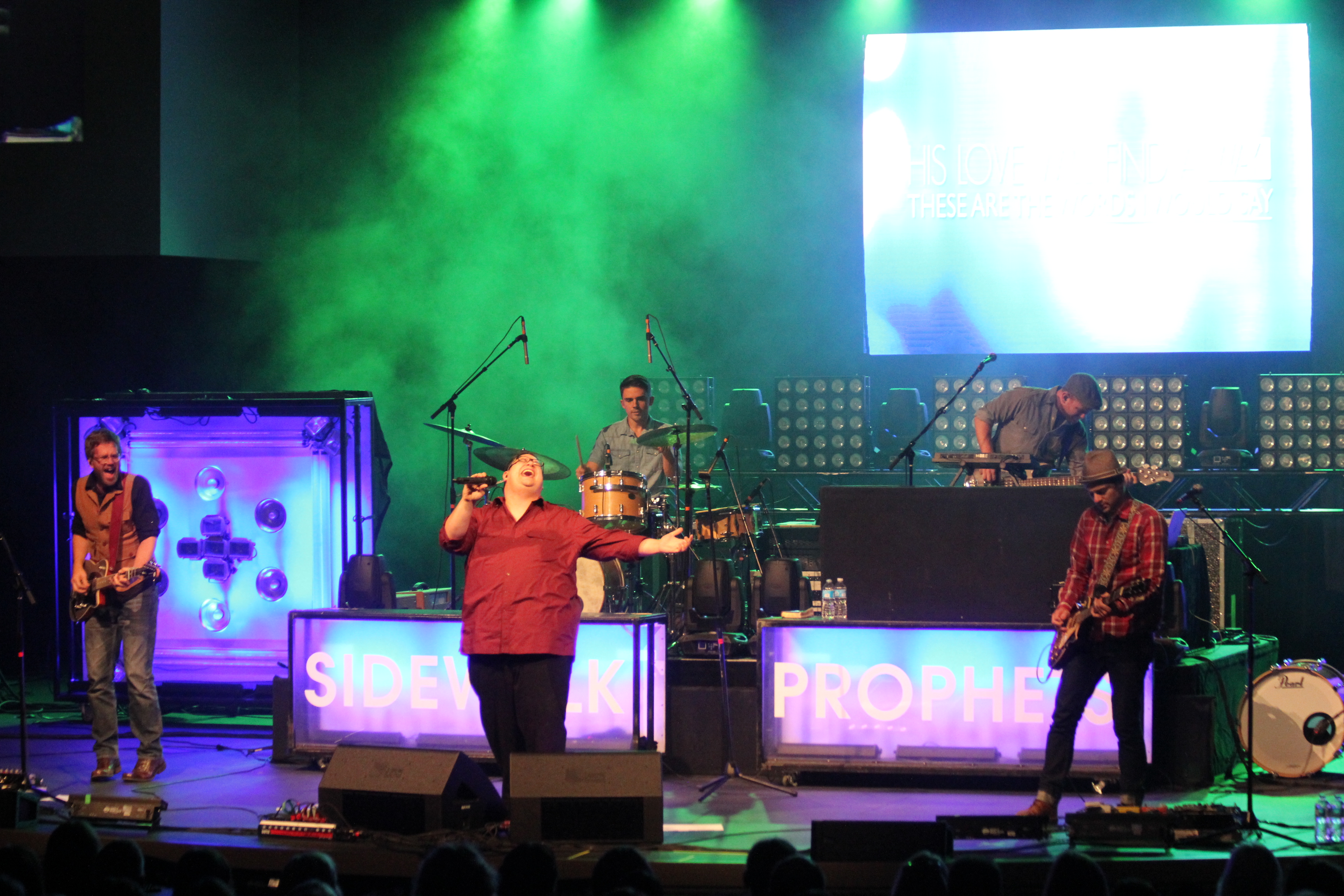 Contemporary Christian music band Sidewalk Prophets performing the song "The Words I Would Say" at Appleton Alliance church